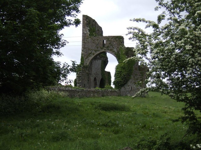 Cistercian Abbey ruins, Abbeylara All that remains of the monastery founded in 1210, is the remains of the tower here. See